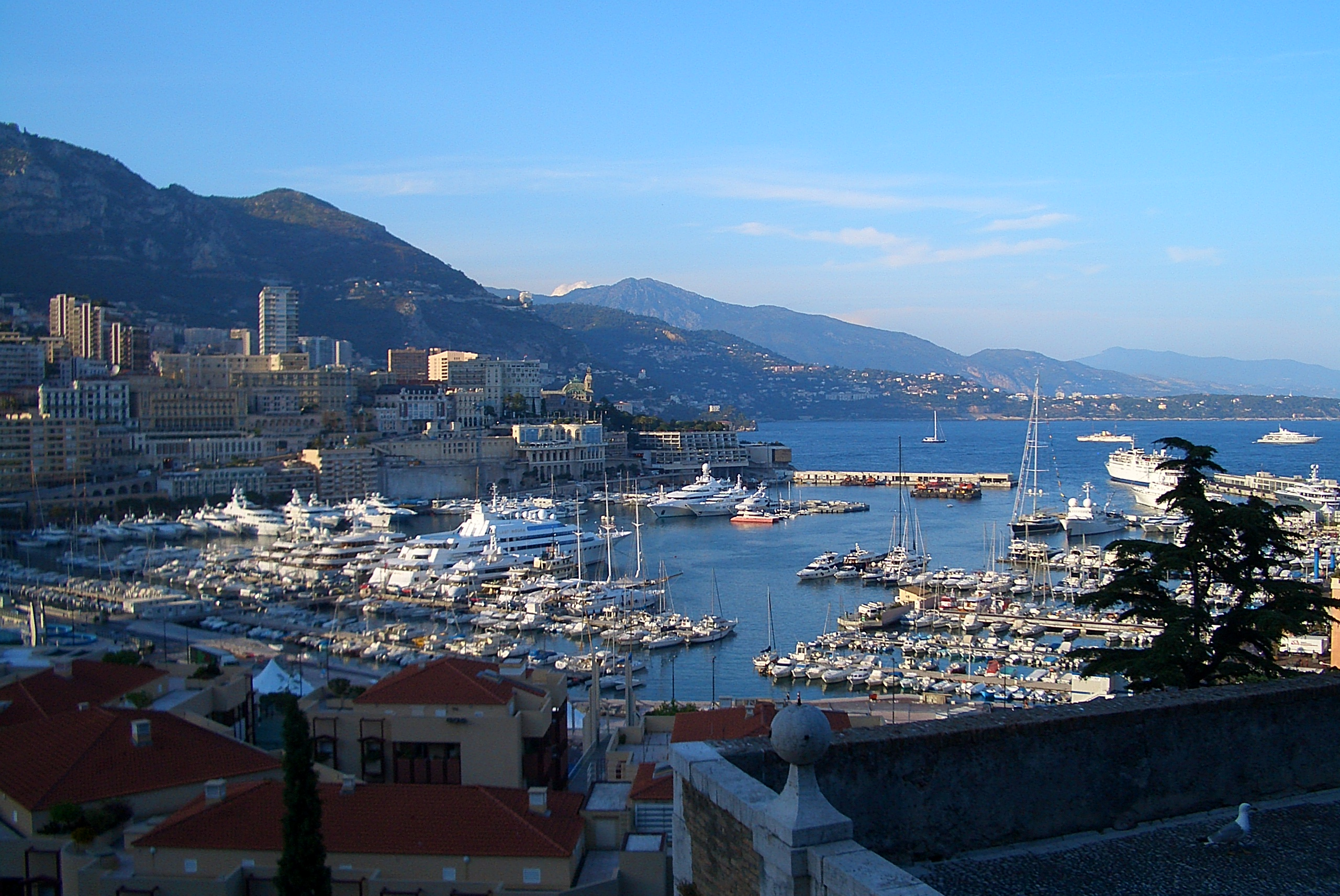 A view of Monaco